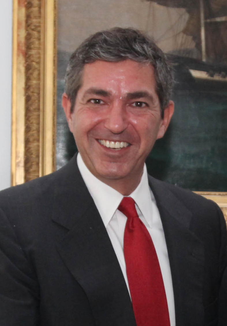 Foreign Minister Lambrinidis meets with Thessaloniki Mayor Yannis Boutaris (Athens, 13.07.11) (Source:Eurokinissi)